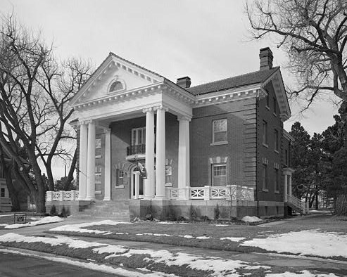 Fort David A. Russell Located at Randall Avenue west of First Street, in Cheyenne - Laramie County, Wyoming — (cropped). Image courtesy of Historic American Buildings Survey—HABS.